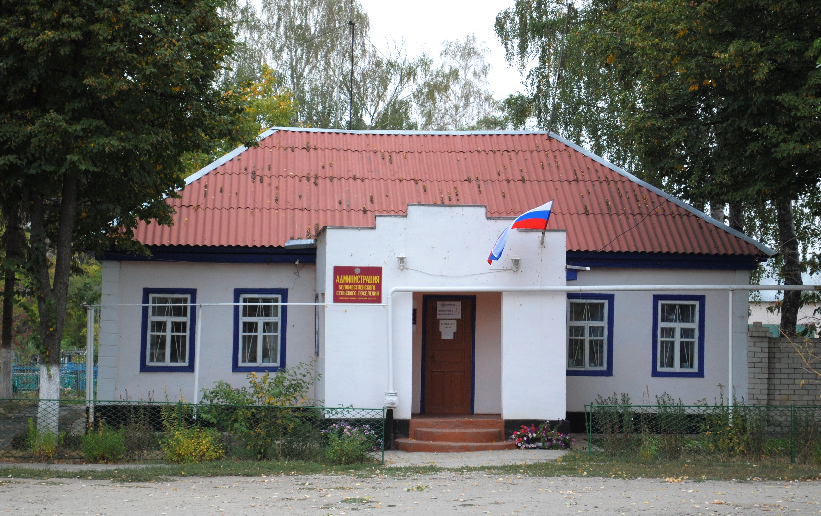 Belomestnoe